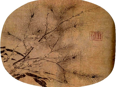 A Song Dynasty fan painted by Zhao Mengjian (c. 1199-1264)